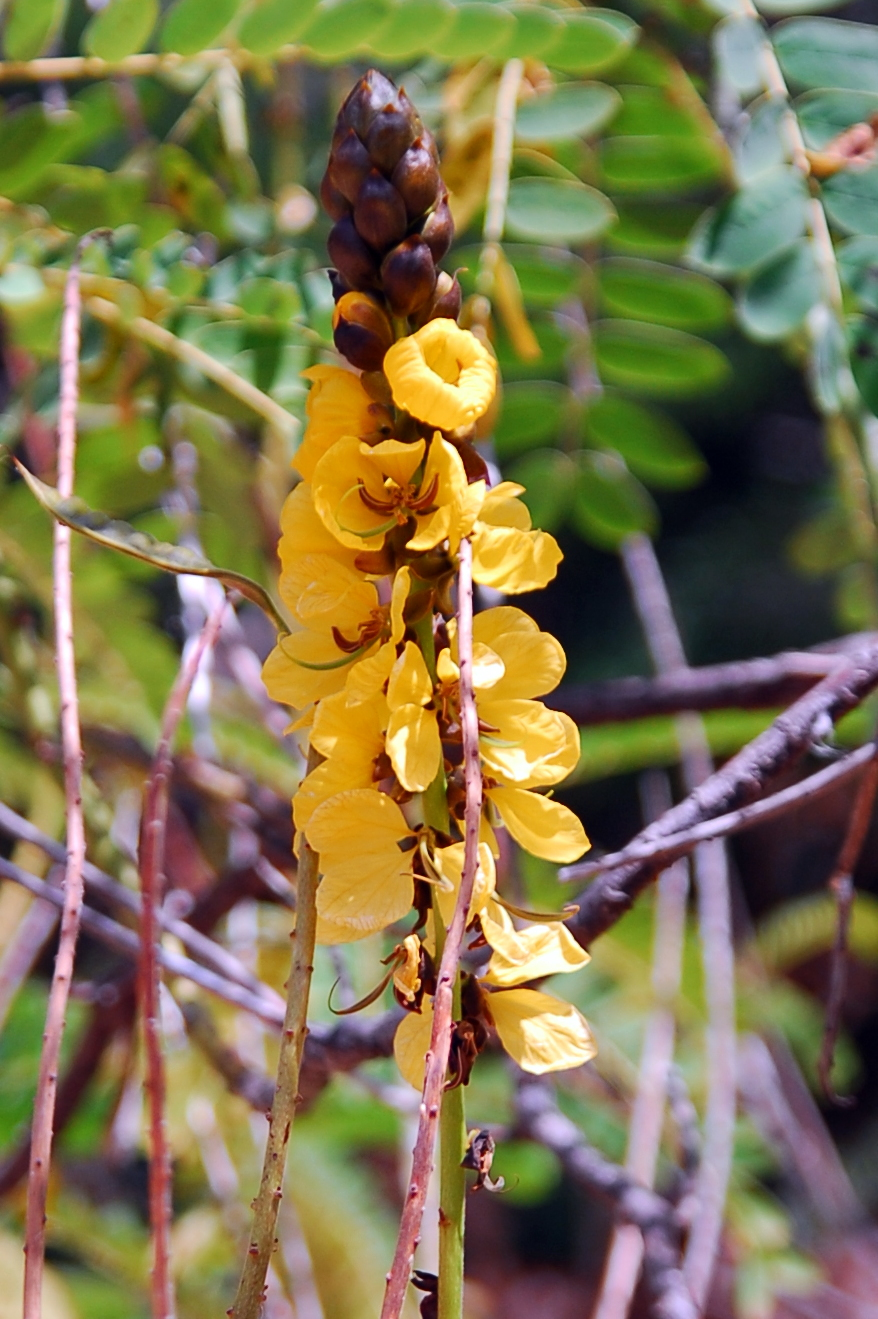 Senna didymobotrya in the Botanical Garden in Vallehermoso (La Gomera)